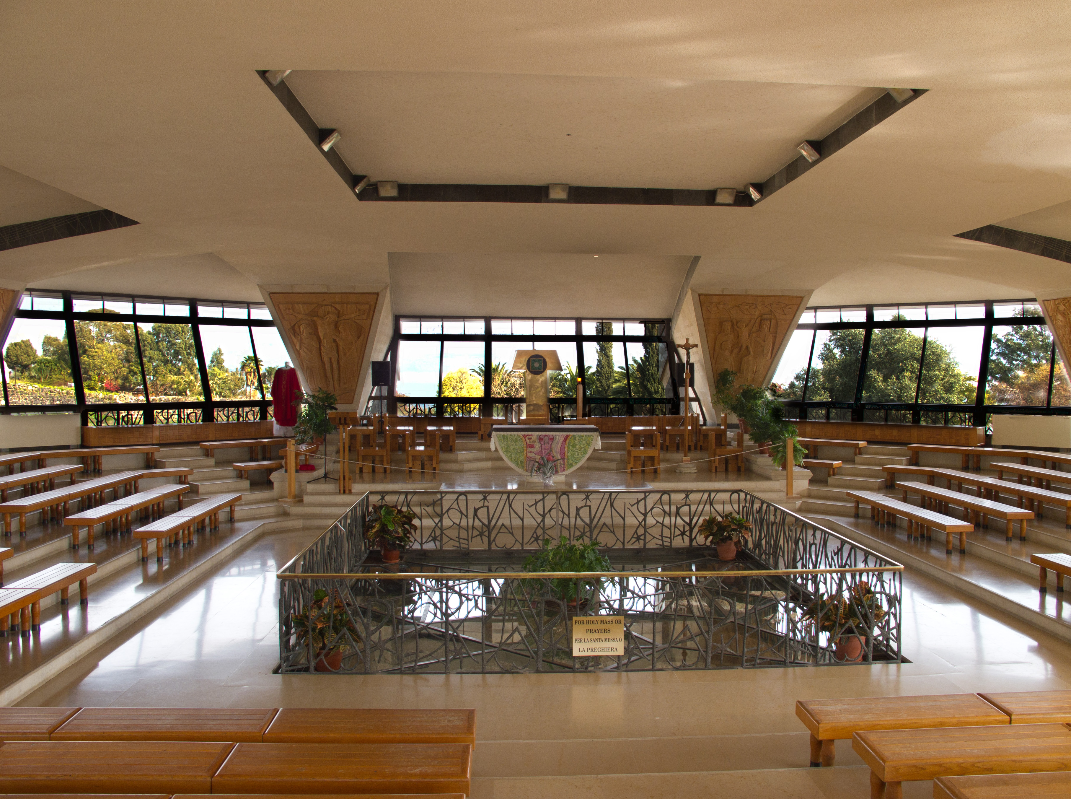 Interior of the church in Capernaum which has a view of the Sea of Galilee. The glass floor in the center provides a view of the ruins of what is purported to be Simon-Peter's home. On Google Earth: 32°52'50.12"N, 35°34'31.47"E Israel. 20110222 Israel 0141+142+143 HDR2+141 Capernaum (5539853803).jpg